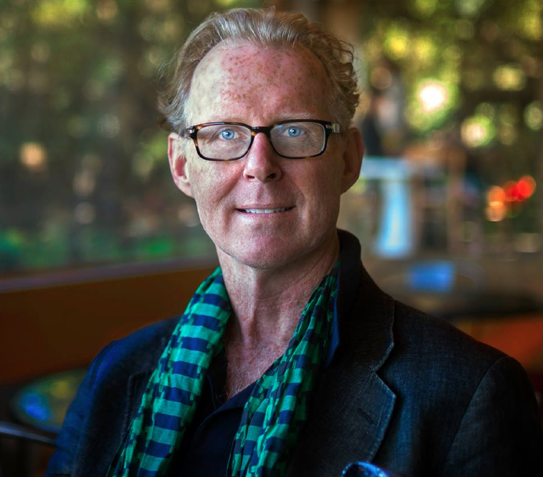 Portrait